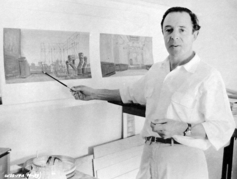 Boris Leven (production designer) on the set of the movie West Side Story